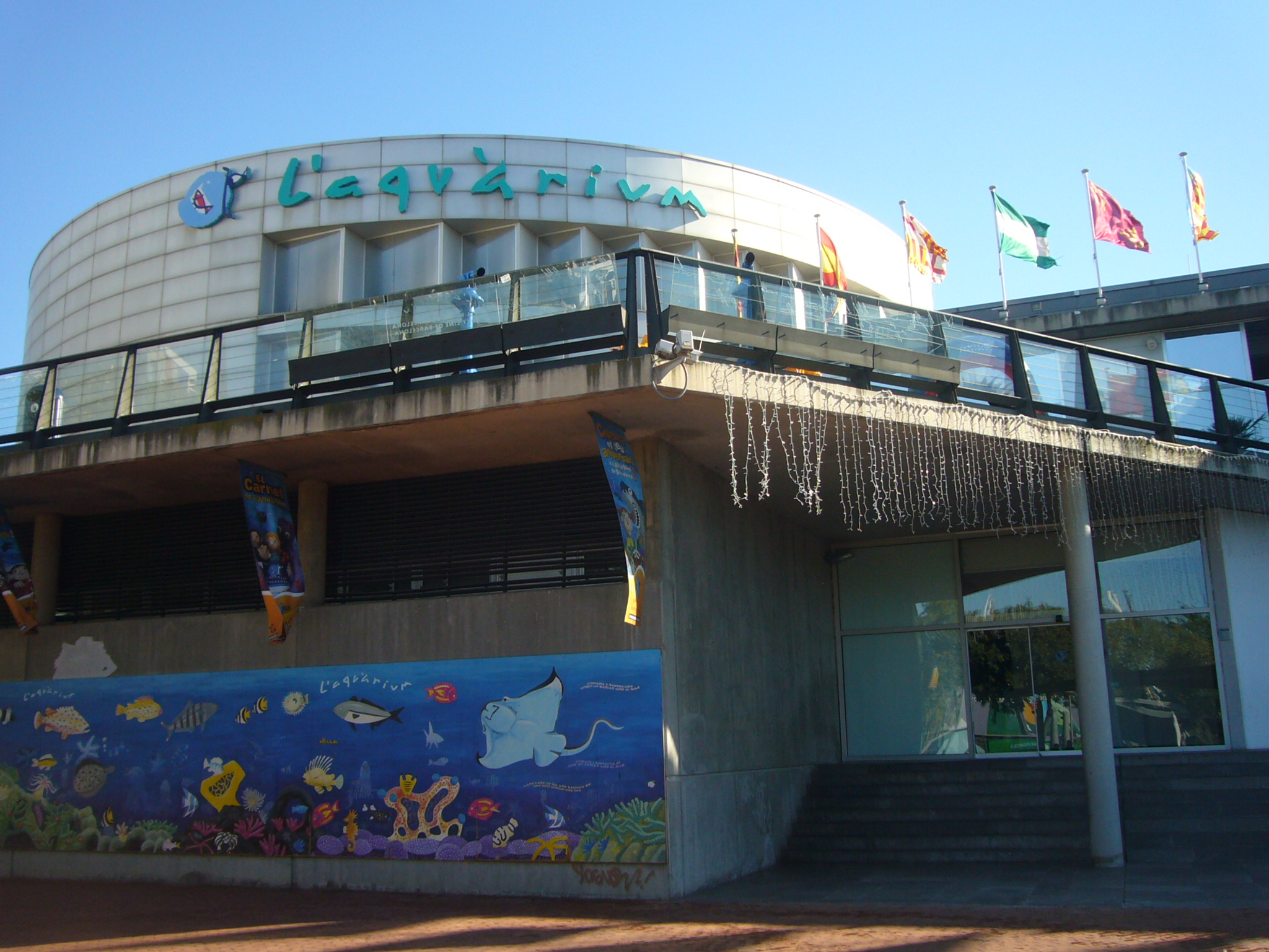 Aquarium Barcelona - building